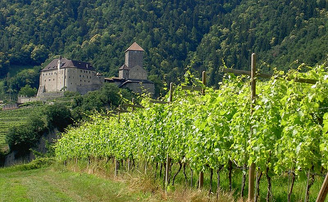 Vineyards with the German/Italy wine grape Vernatsch (also known as Trollinger and Schiava) in the Trentino-Alto Adige region of northeast Italy.